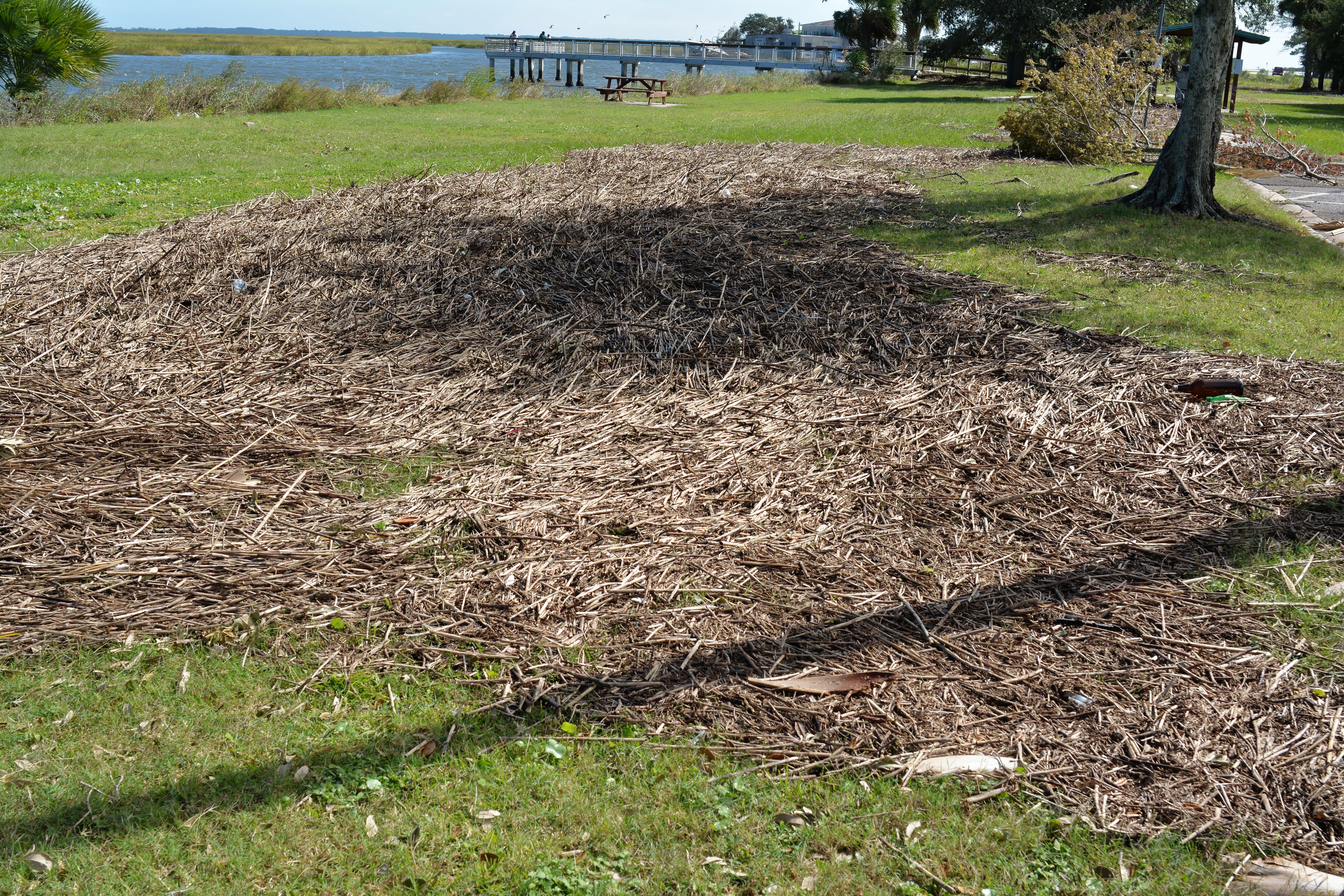 Wrack washed ashore in Brunswick, Georgia, US by hurricane Mathew (seaweed washed ashore). This is in Overlook Park.